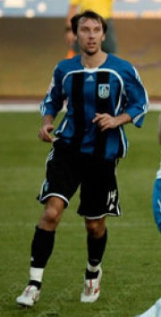 Ghenadie Olexici in action for FC Shinnik